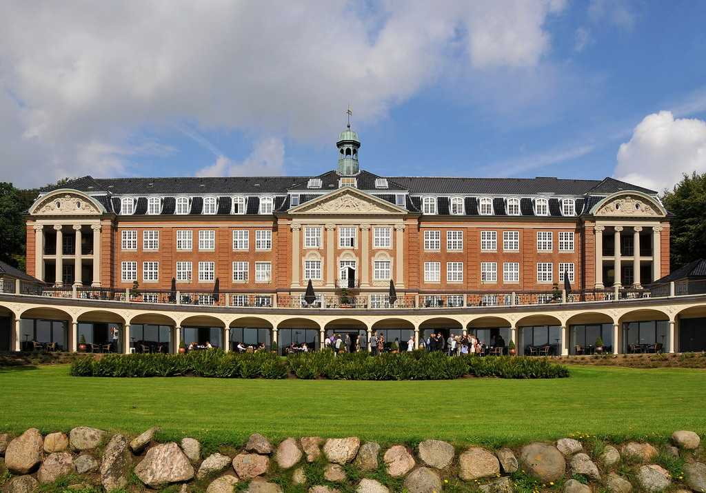 Hotel Koldingfjord at Kolding in Denmark. Originally the first Danish Christmas Seal Sanatorium opened in 1911.